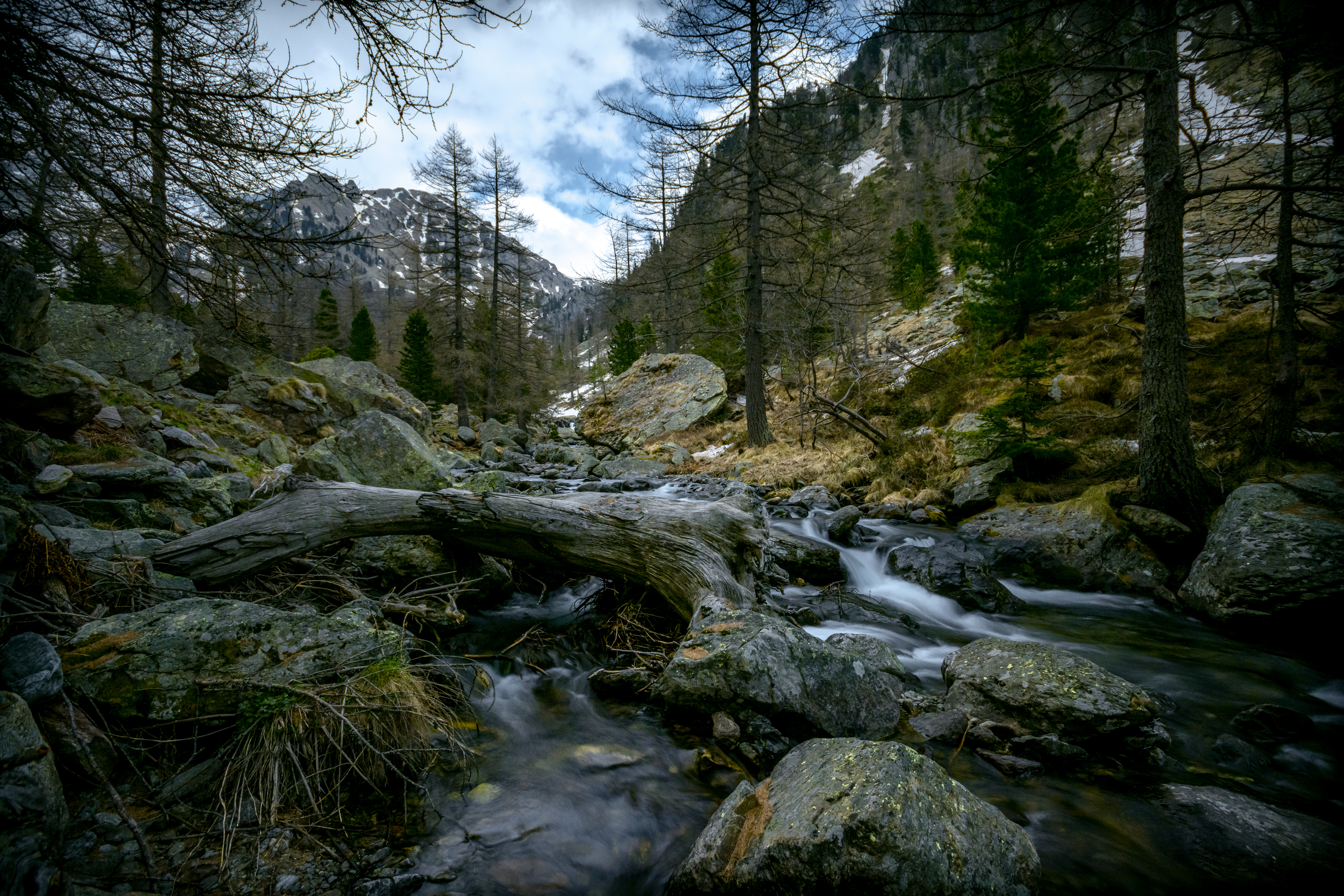 Snowmelt Mercantour in May.